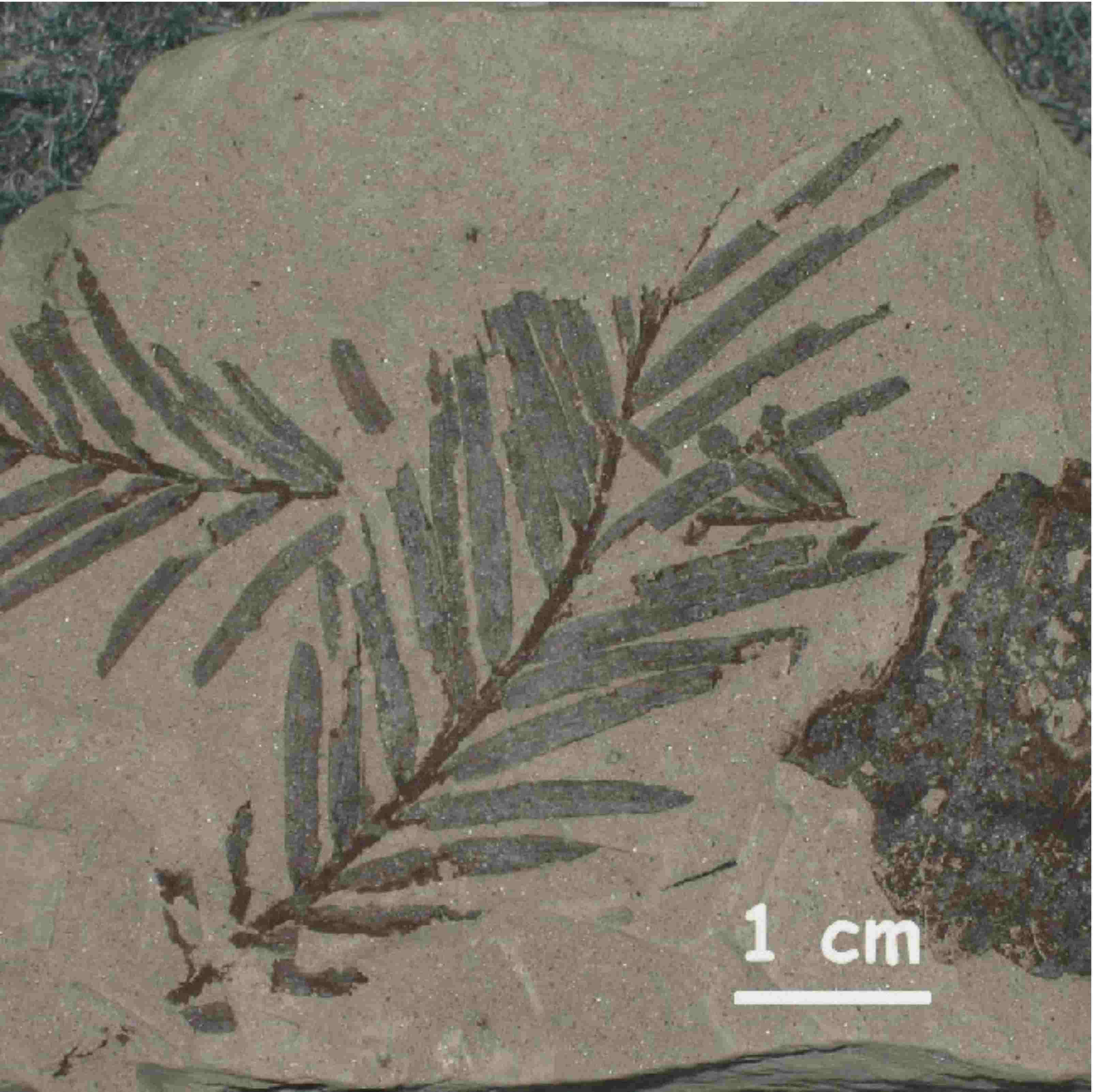 Fossil leaf of the tree Taxodium dubium. Miocene (Tortonian, 8 Ma) series, Rhineland, Germany